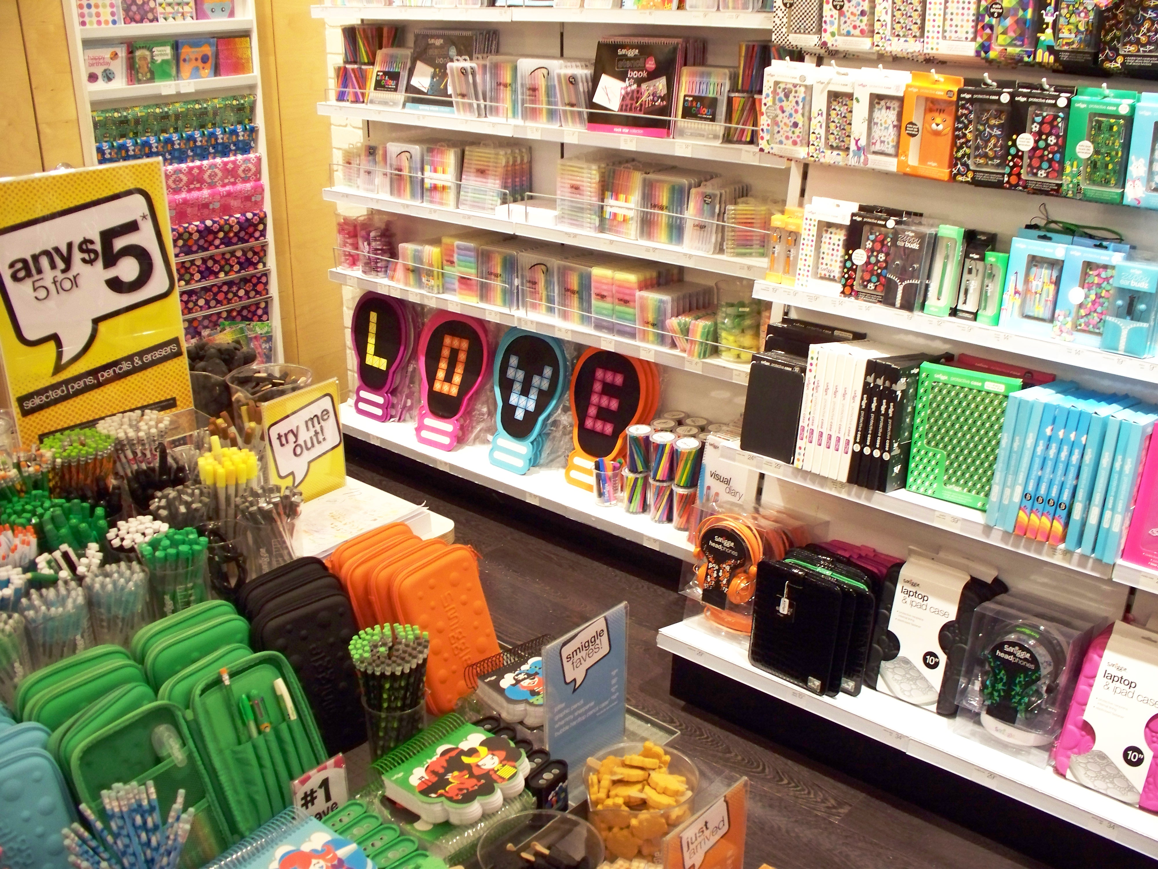 This picture was taken using a 12MP Kodak EasyShare Z1275 camera. A selection of Smiggle products in 2013.